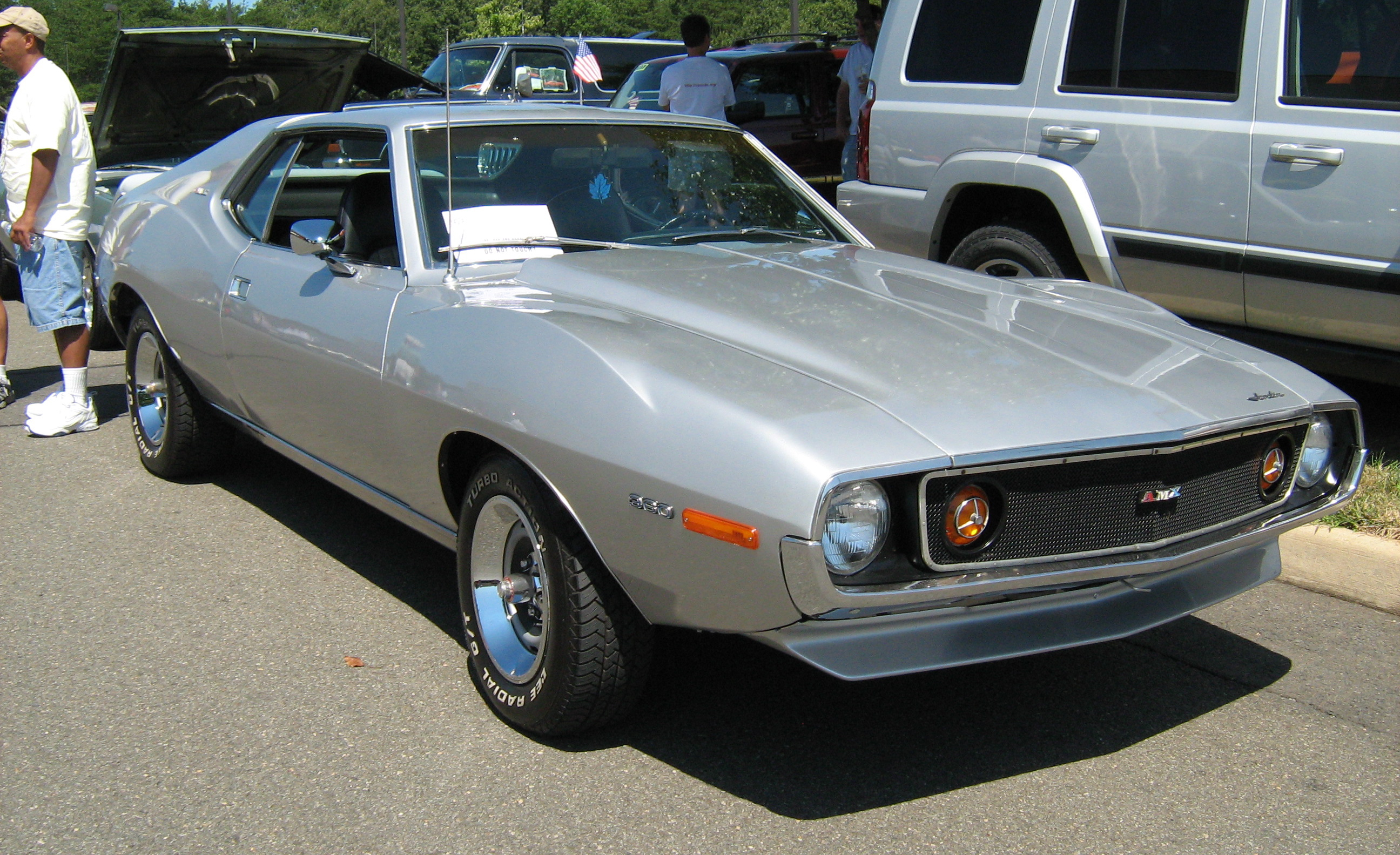 1971 AMC (American Motors Corporation) Javelin AMX - front view. This car came with the standard 360 cubic inch displacement (5.9 L) V8 and 4-speed manual transmission. Picture taken at MOPAR car show.